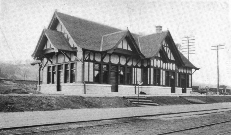 The Briarcliff train station in Briarcliff Manor, New York, United States.